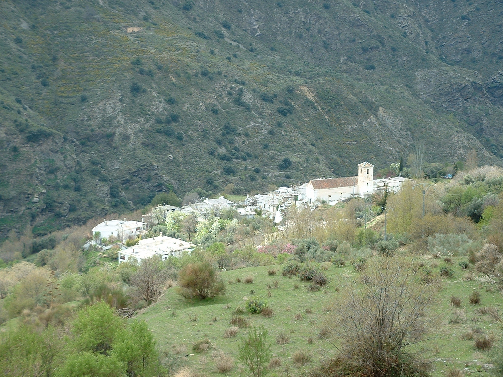 The village of Atalbeítar in La Taha, in the Alpujarras district of province of Granada, Spain